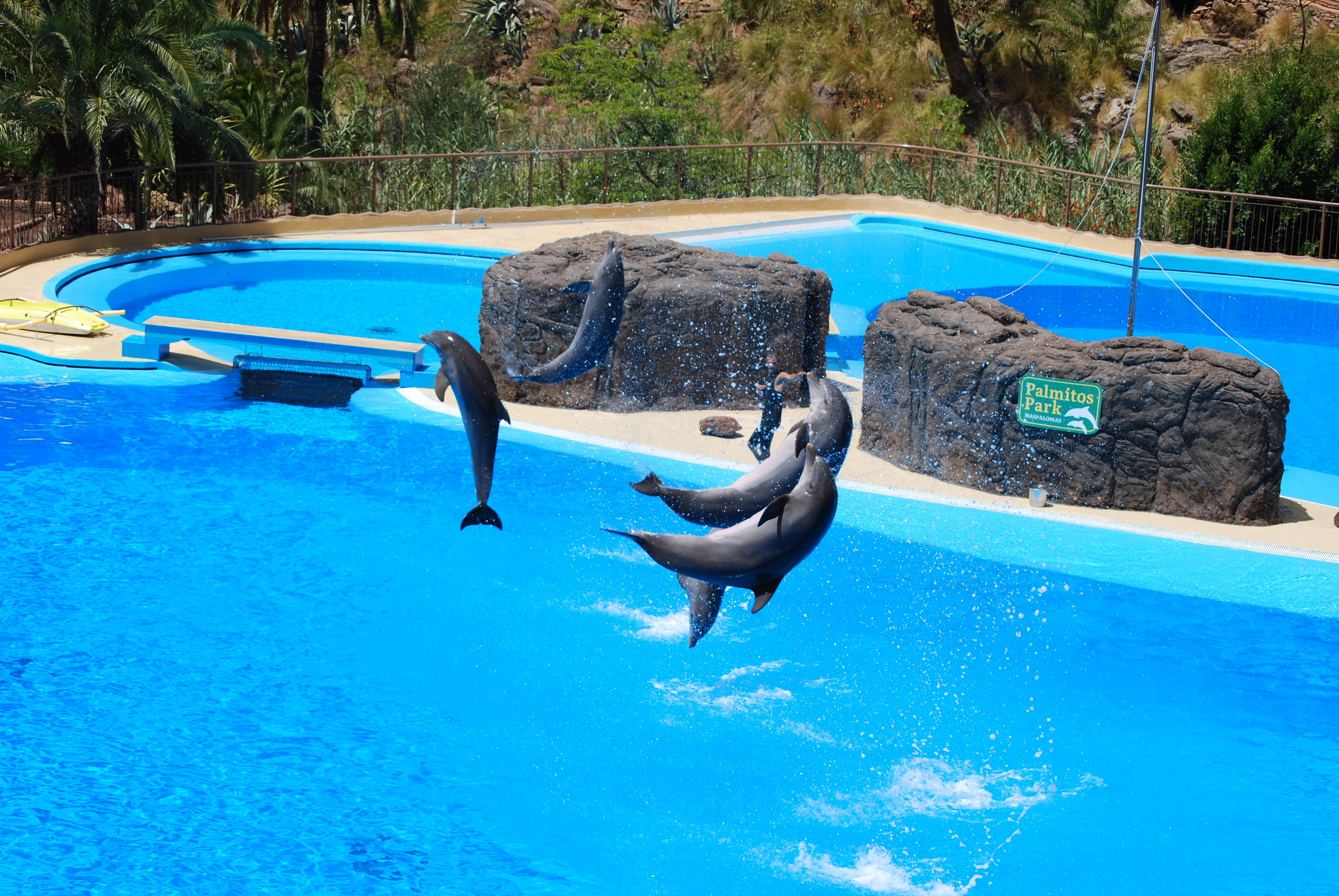 Jumping dolphins at Palmitos Park, Gran Canaria.